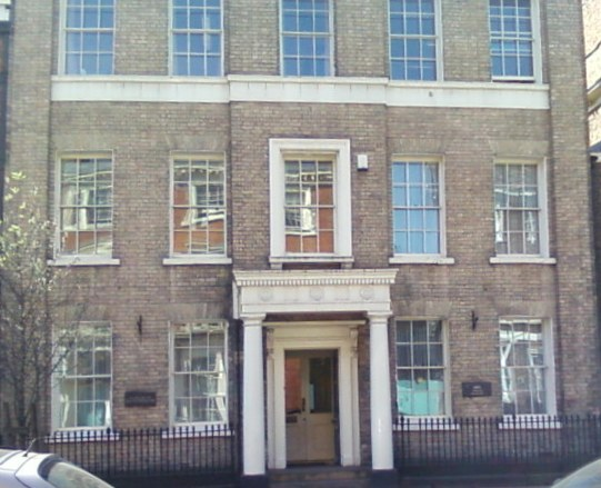 54 Bootham, York, UK